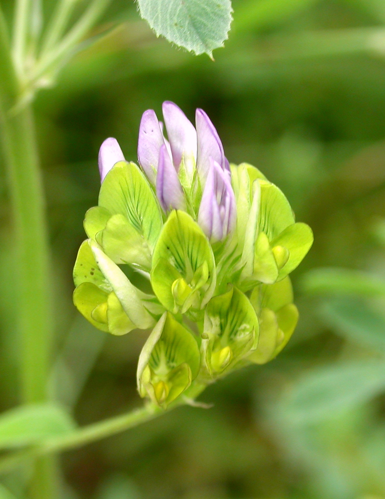 Inflorescence of Medicago x varia, Slovensky Raj, Slovakia